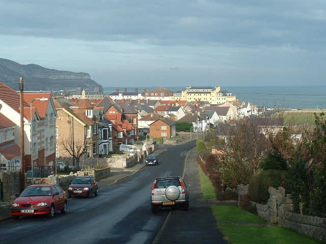 Craig y don. Nant Y Gamar Road - looking NW towards Llandudno promenade.